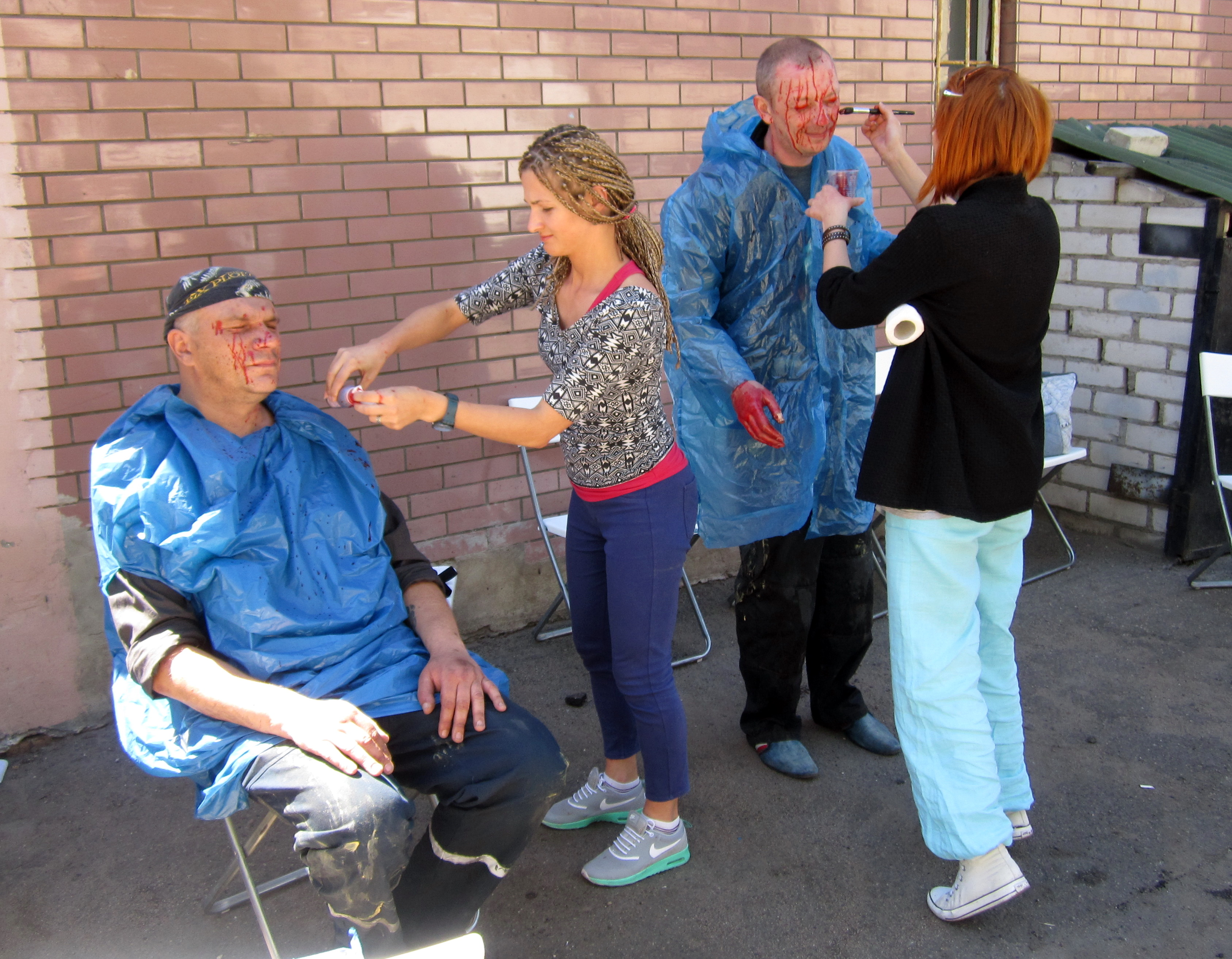 Alexander Kulinkovich (to the right) during filming of "GaraSh" movie in Minsk, Belarus